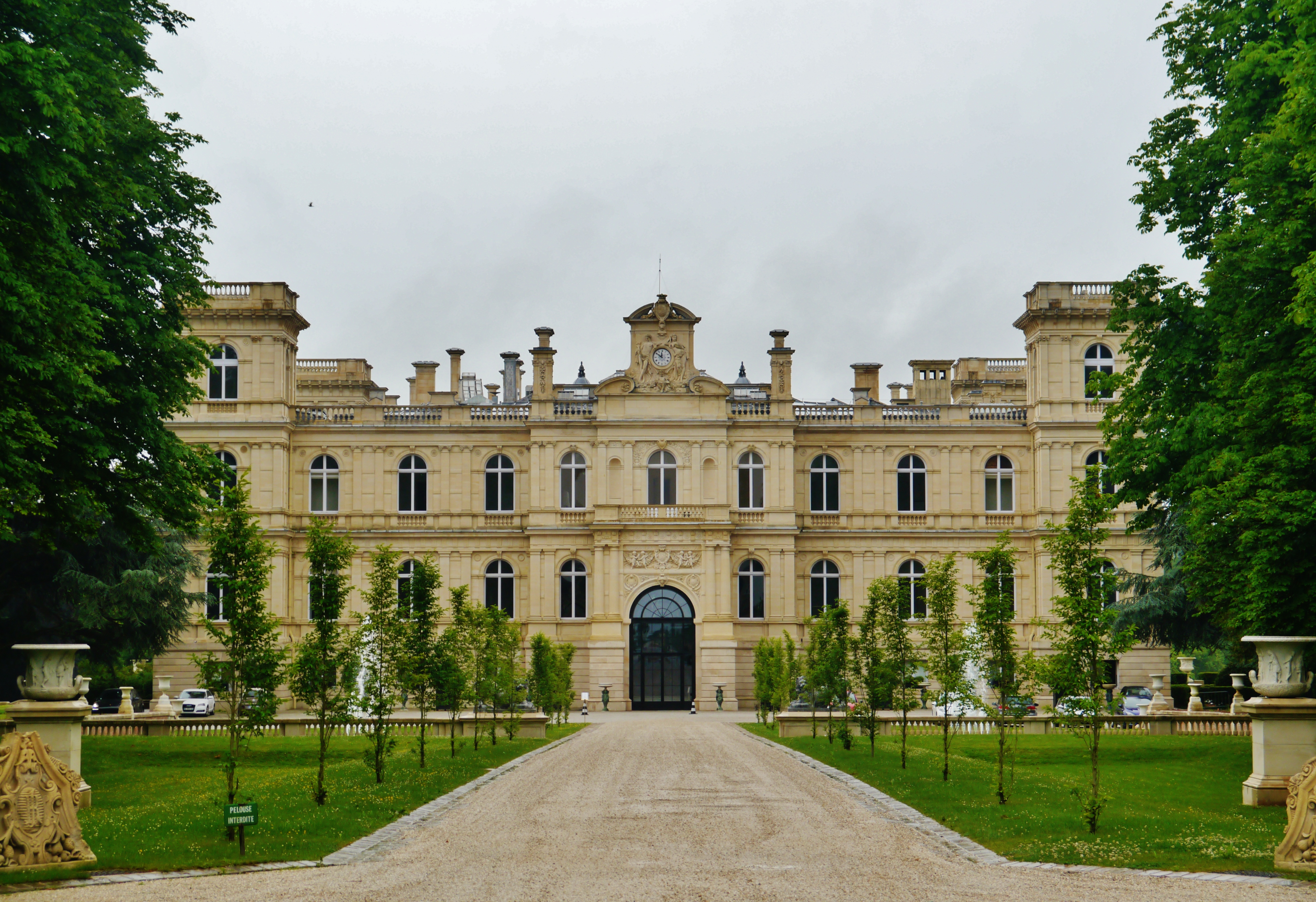 Ferrières Palace, Ferrières-en-Brie, Department of Seine-et-Marne, Region of Île-de-France, France